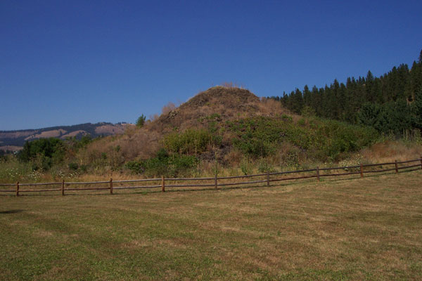 Heart of the Monster There is a creation story at the center of every culture. For the Nez Perce, the story of their people begins at the ‘Heart of the Monster.’ A monster was eating all of the animals. Coyote fooled the monster into swallowing him. Using a set of stone knives that he had brought with him, Coyote cut apart the monster from the inside to release all of the animals that were trapped in the monster. Upon emerging from the remains of the monster, Coyote cut it up and threw the pieces all over the land, creating the Indian people who inhabit the land. Fox asked Coyote about the land around the monster, it had no people, what was he to do? As Coyote washed the blood of the monster off his hands, the drops became the Nez Perce. Nez Perce National Historical Park. NEPE LP-2